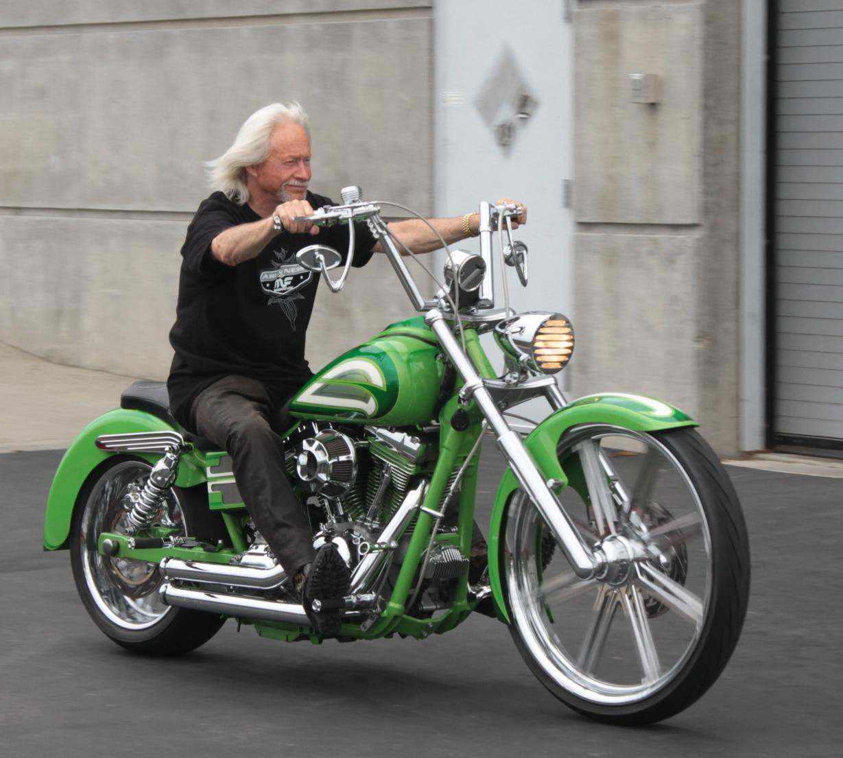 Cropped version of File:Arlen Ness.jpg by WillArlenNess